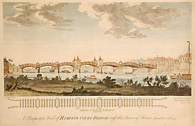 A Perspective View of Hampton Court Bridge across the River Thames. Open'd Decr. 13th 1753 Grignion, London: Early 19th Century